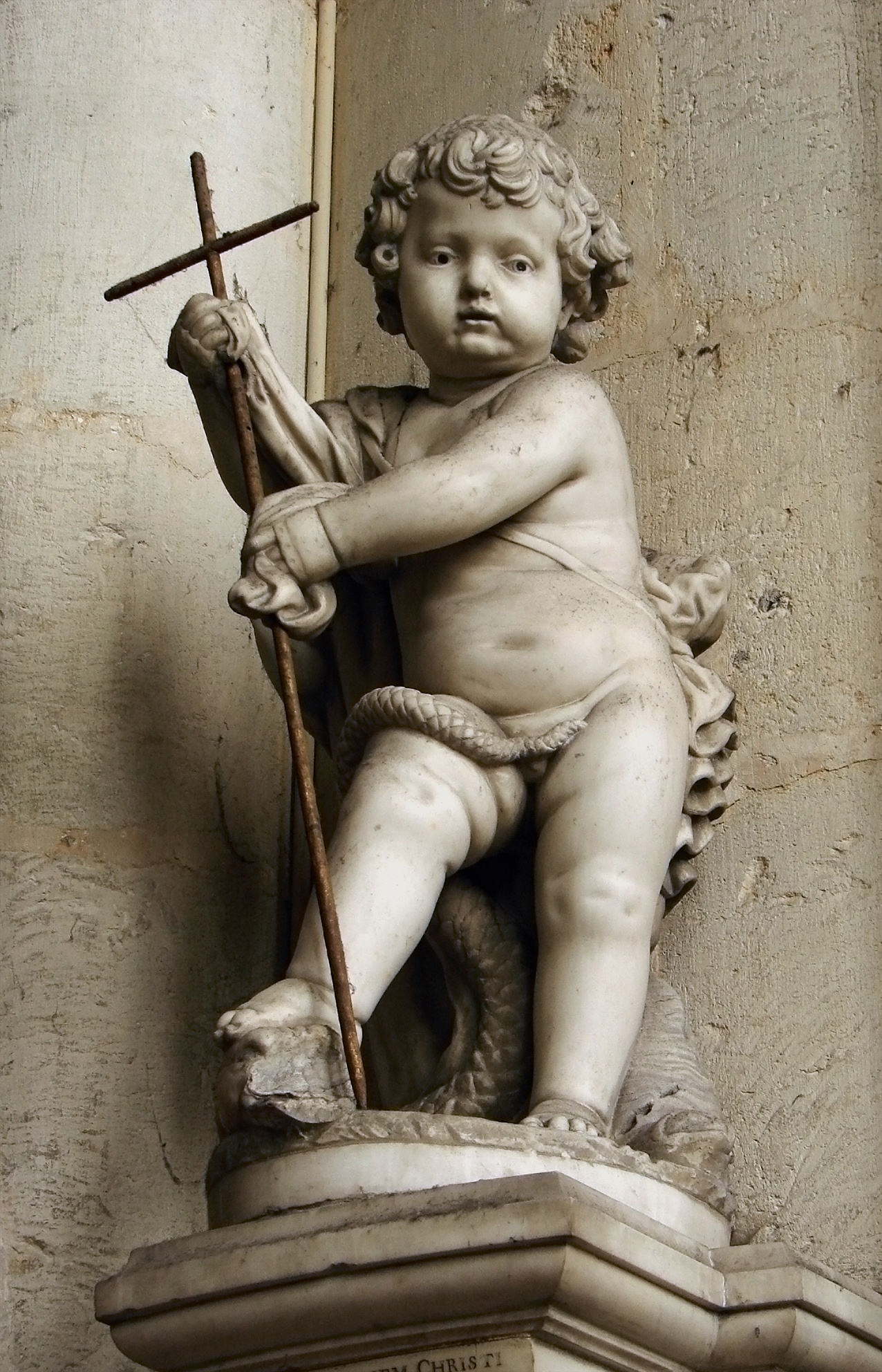 Monument of Charles de Vitry (1705), detail: Jesus treading the Snake under foot. Amiens Cathedral.